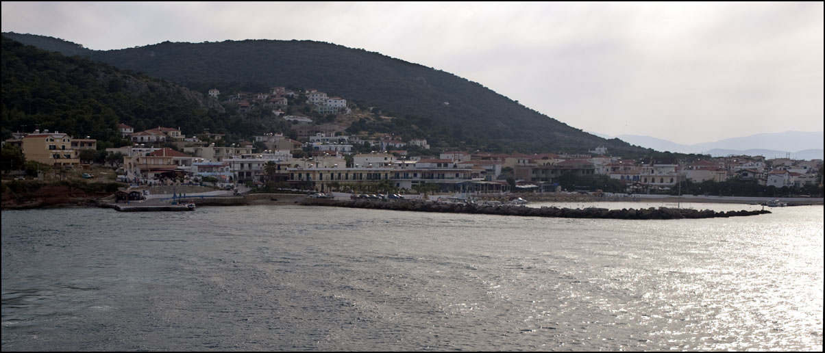 Panoramic view of Skala Harbor / Angistri island, Saronic Gulf, Greece.